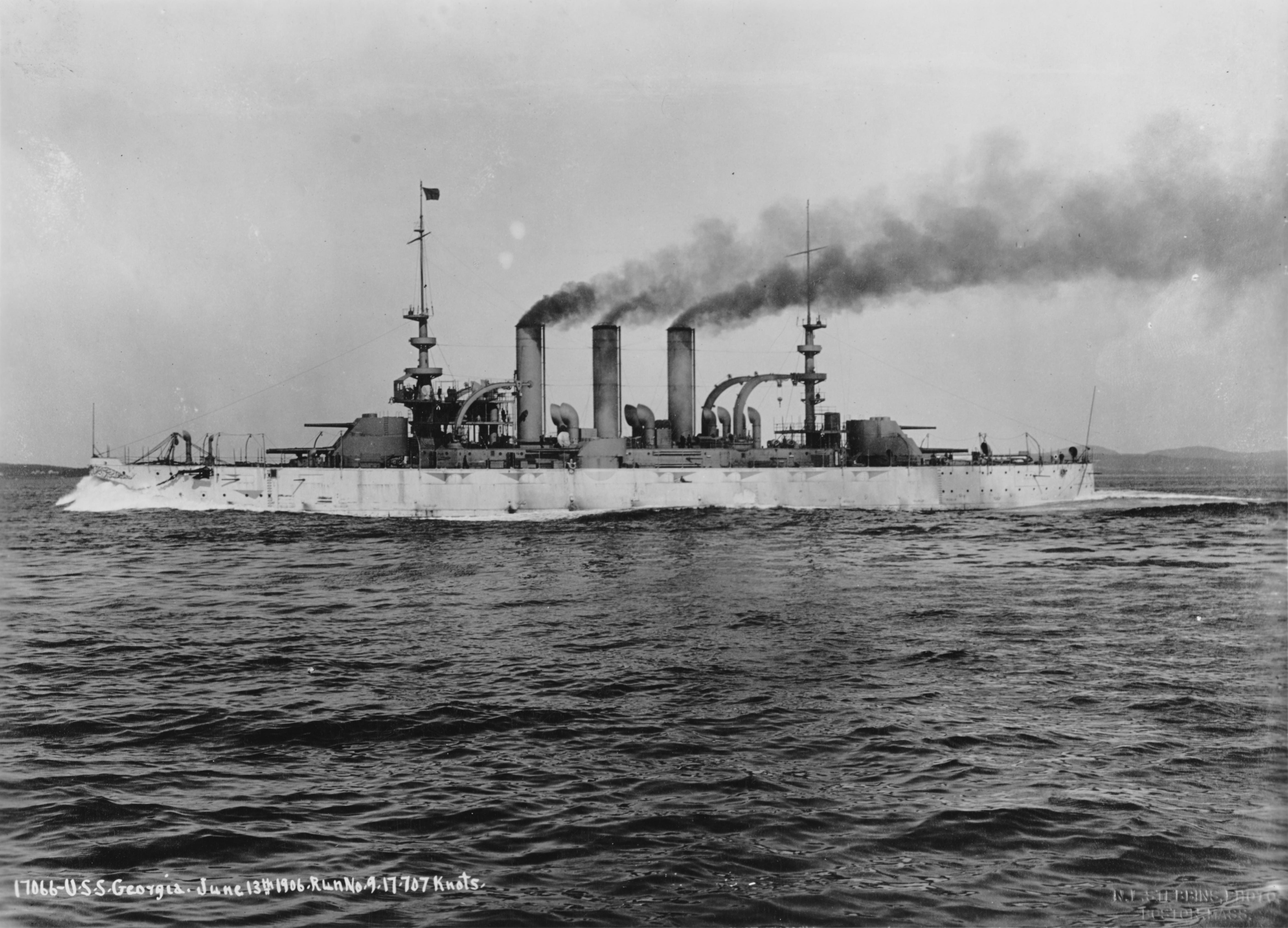 (Battleship # 15) Making 17.707 knots on Run # 9 of her trials, 13 June 1906. Note that her six-inch broadside guns have not yet been installed. U.S. Naval History and Heritage Command Photograph.